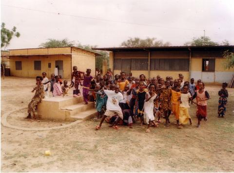 Pupils in the school of Agnam-Goly village, Senegal